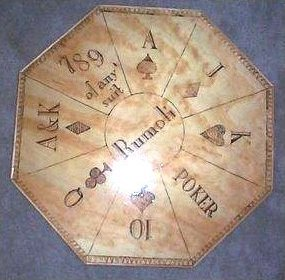 Digital photo of a handmade Rummoli board (woodburnt on fibreboard). Unfortunately some flash bounce, but there seem no other pics so better than nothing. For same reason, not clipping the borders at the moment, though have no objection to that being done.